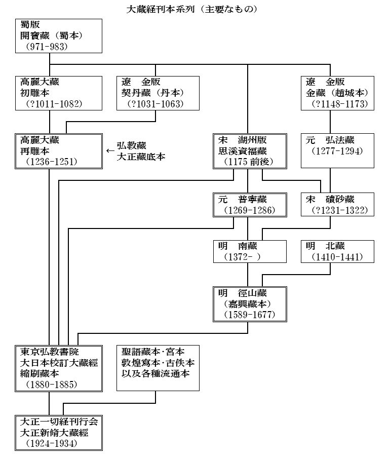 history of Taishō Shinshū Daizōkyō 大正新修大藏经历史